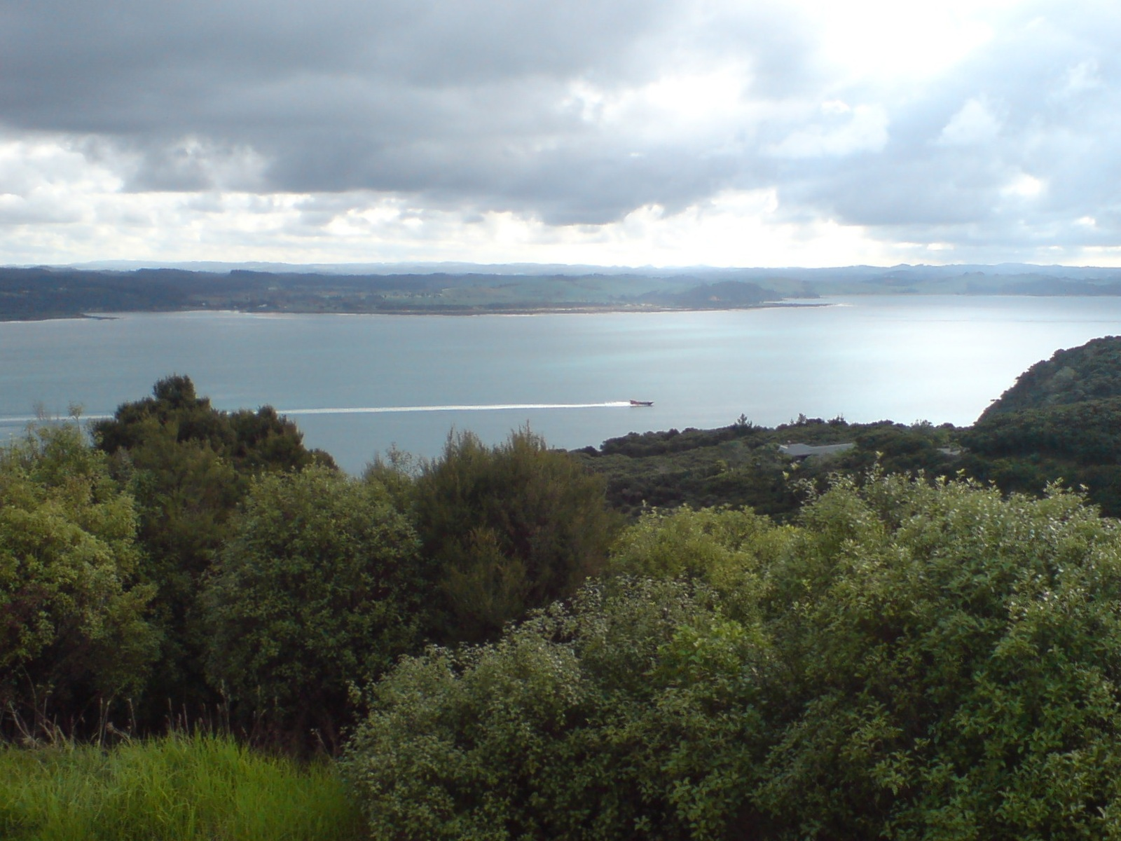 The Excitor jetboat heading out towards the 'Hole in the Rock' in the Bay of Islands, New Zealand. Image taken from Flagstaff Hill.